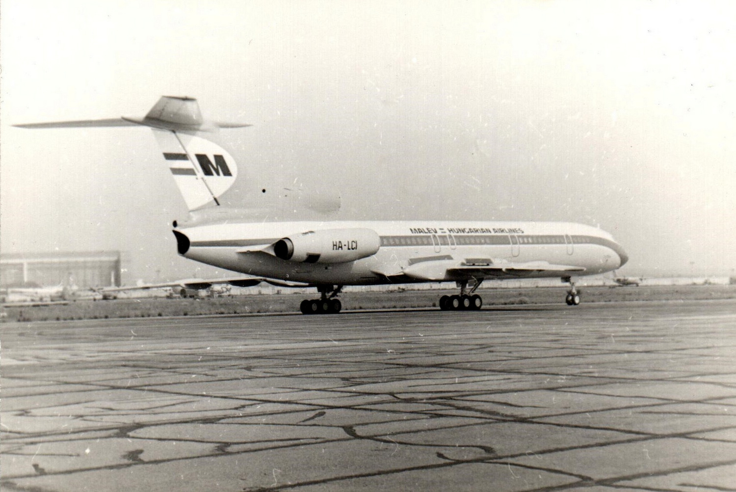 Malev Tupolev Tu-154A (HA-LCI) at unidentified Russian airport. This aircraft crashed off Beirut as Malév Flight 240 on 30 September 1975